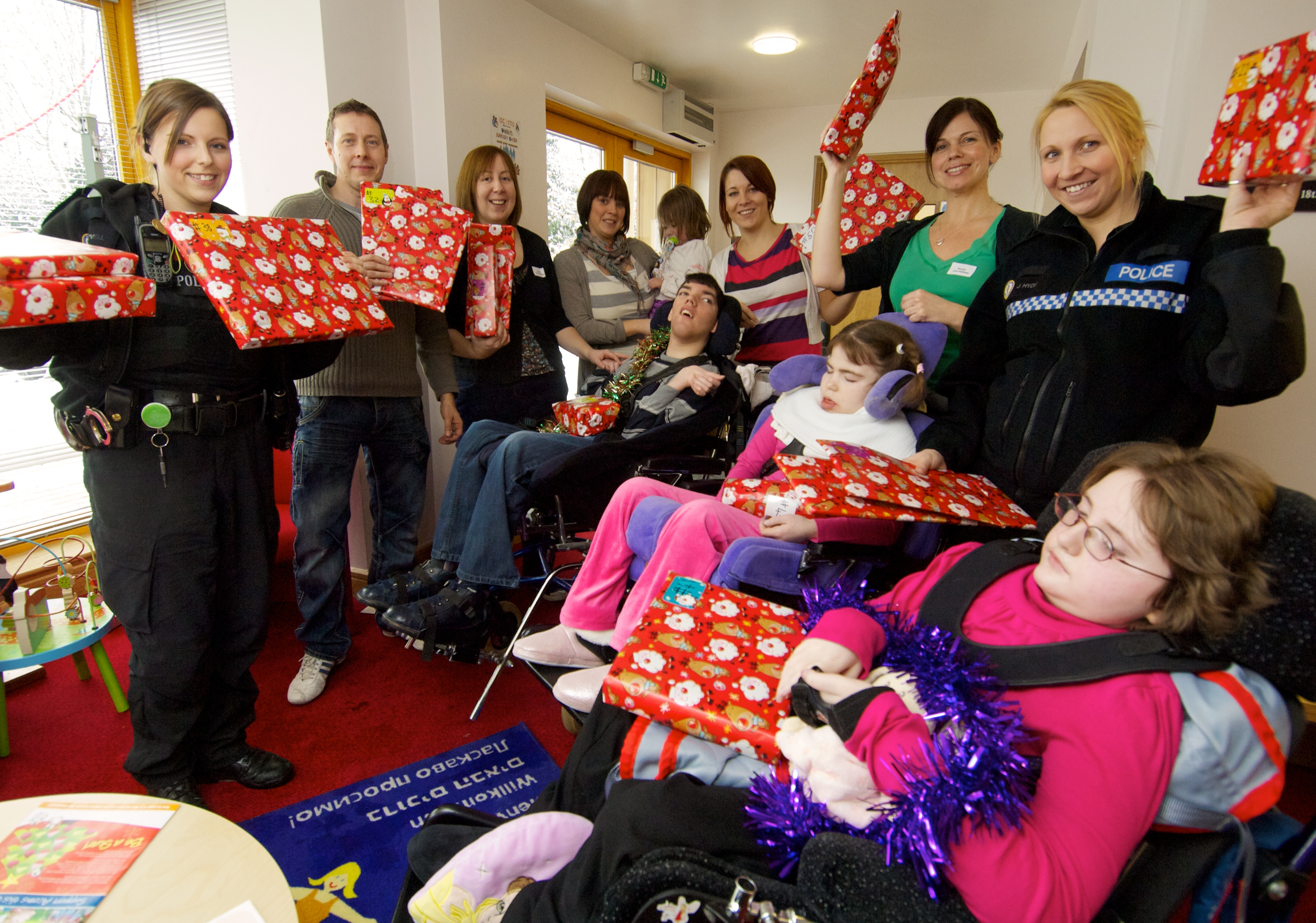 Acorns Children's Hospice, Walsall, receving christmas gifts from PCs Justine Hyde and Charlotte Lovell.